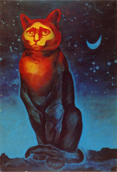 Felis Coelestis shows a orange illuminated cat under a star sparkled sky by painter Elsa Olivia Urbach.